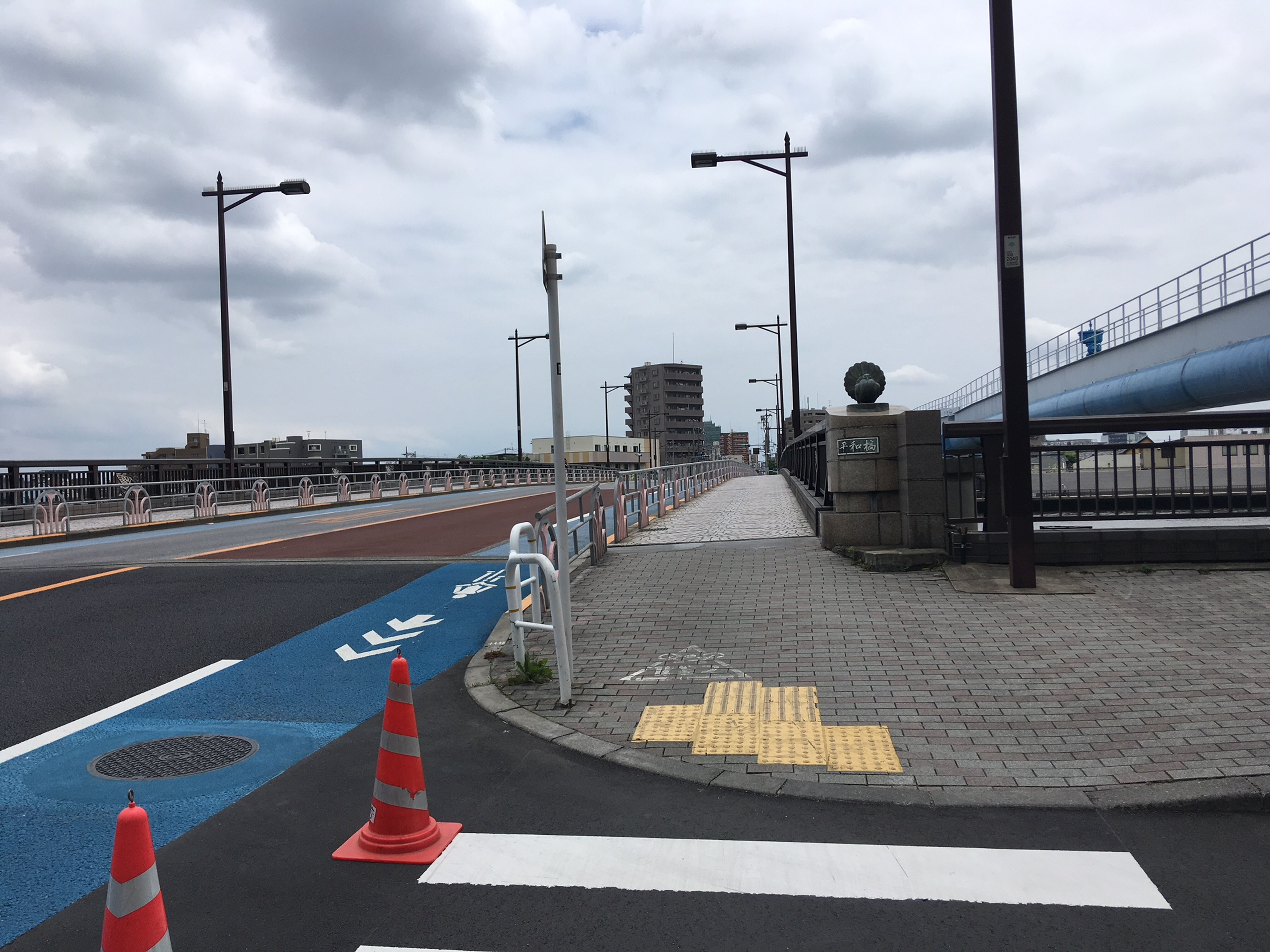 Heiwabashi, which means "Bridge of Peace" is located in Katsushika,Tokyo,Japan.